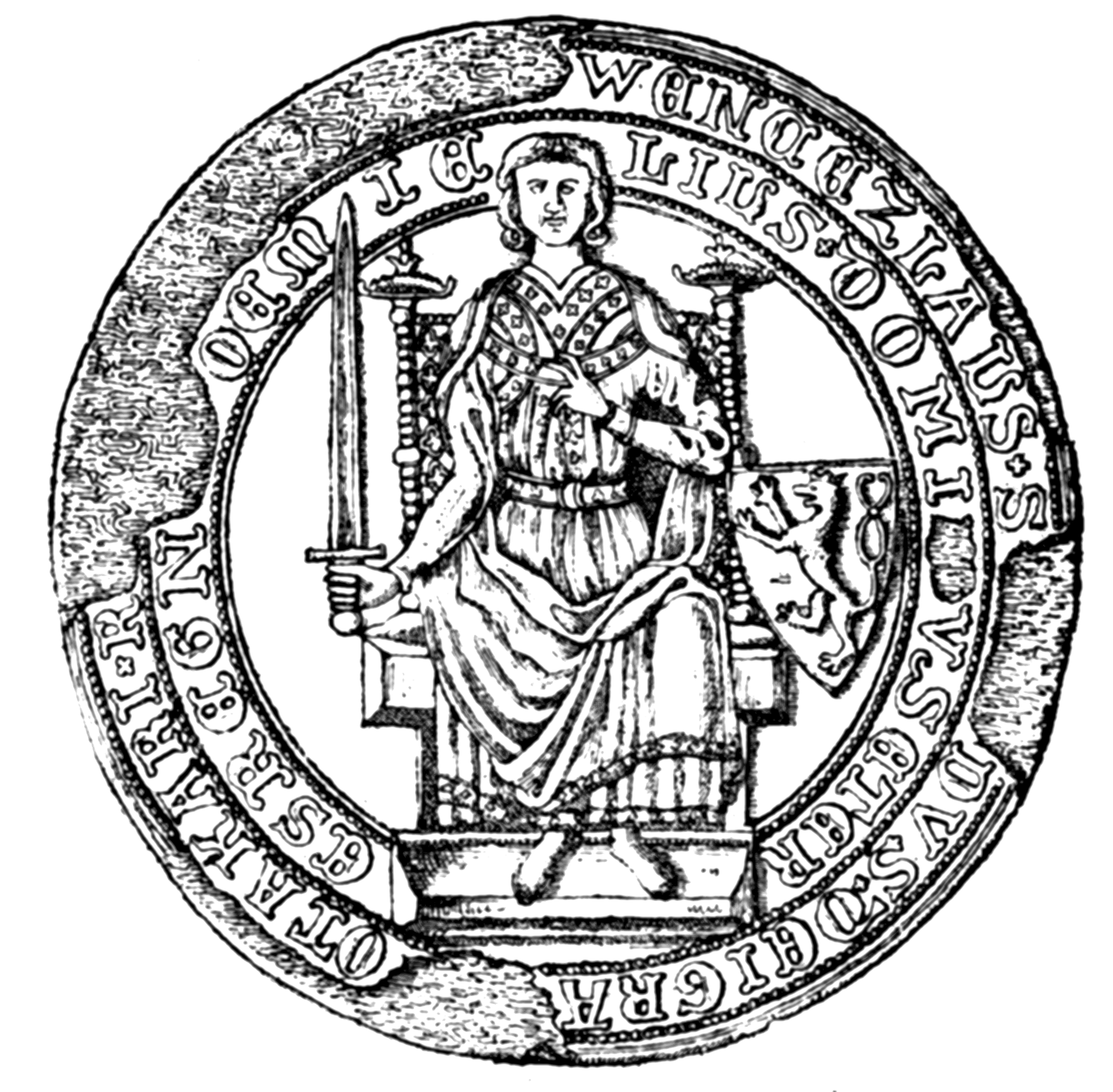 Seal of Wenceslaus II as hereditary Prince of the Kingdom of Bohemia